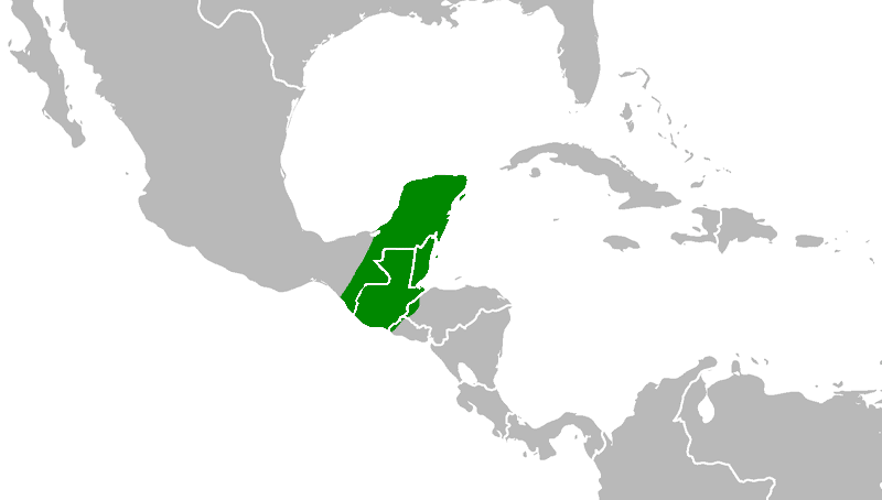 Distribution of Mayan languages — in Central America and northern Mexico.